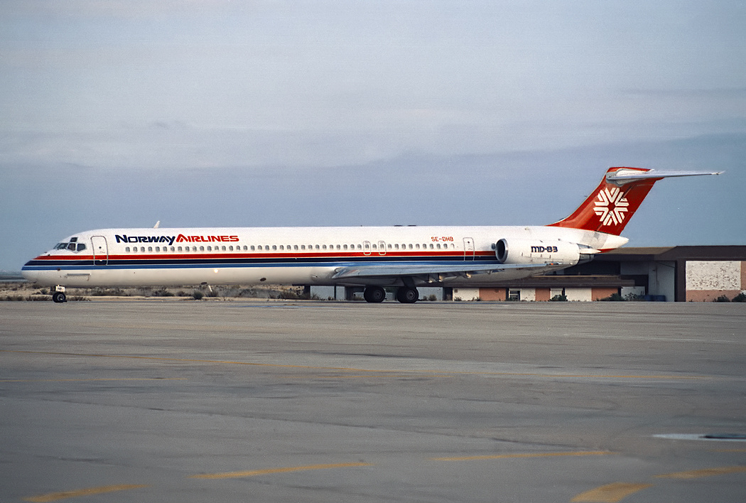 Norway Airlines McDonnell Douglas MD-83 SE-DHB at Faro Airport